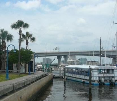 River taxi docked on the southbank